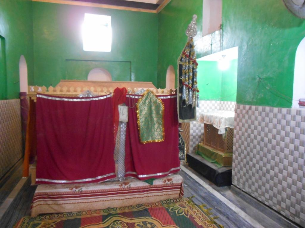 Bait-ul-Huza at Kaala Imambara